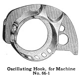 An "oscillating hook" shuttle driver, view of its hook